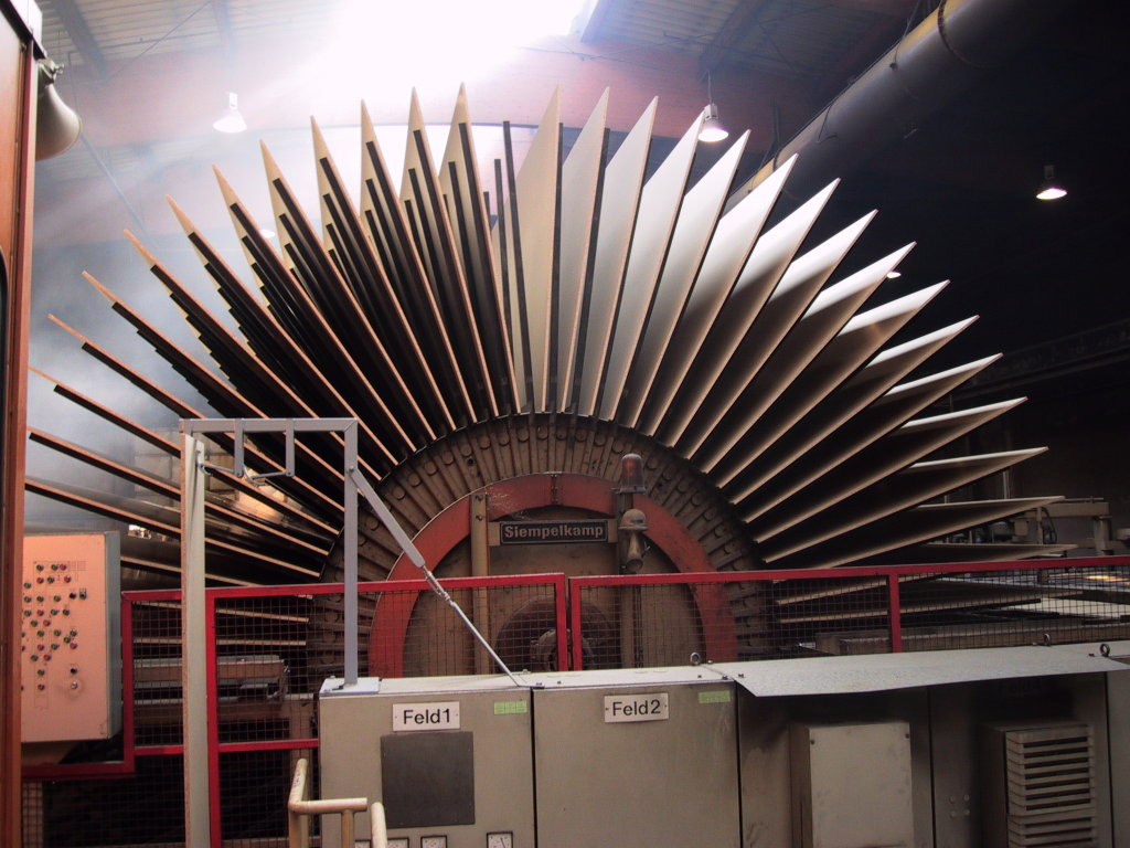 A machine which turns over the new particle boards in a particle board production firm